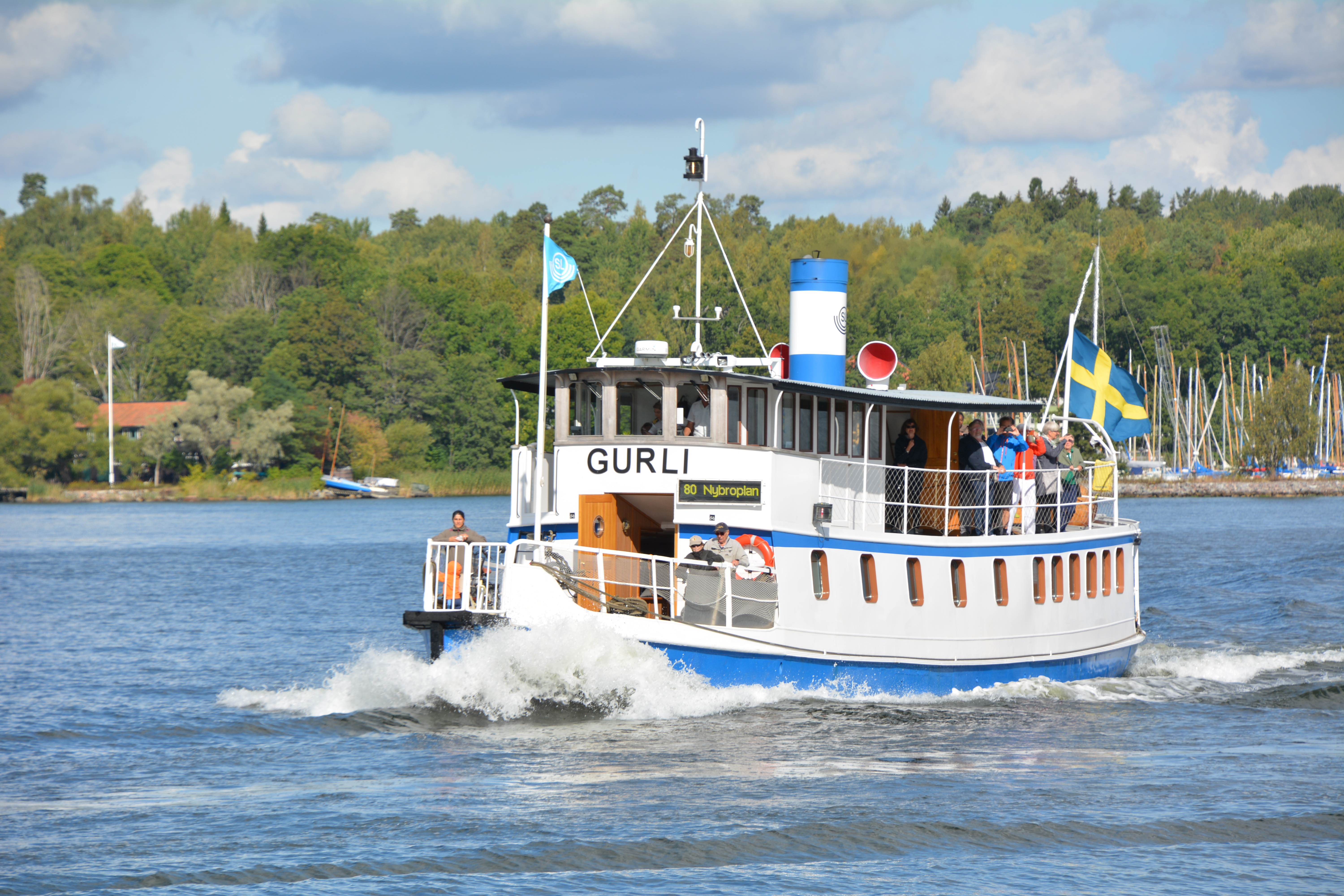 M/S Gurli, Stockholm, Sweden, built 1871 by Bergsunds Mekaniska Verkstad, Stockholm, No 96, Signal SLEG